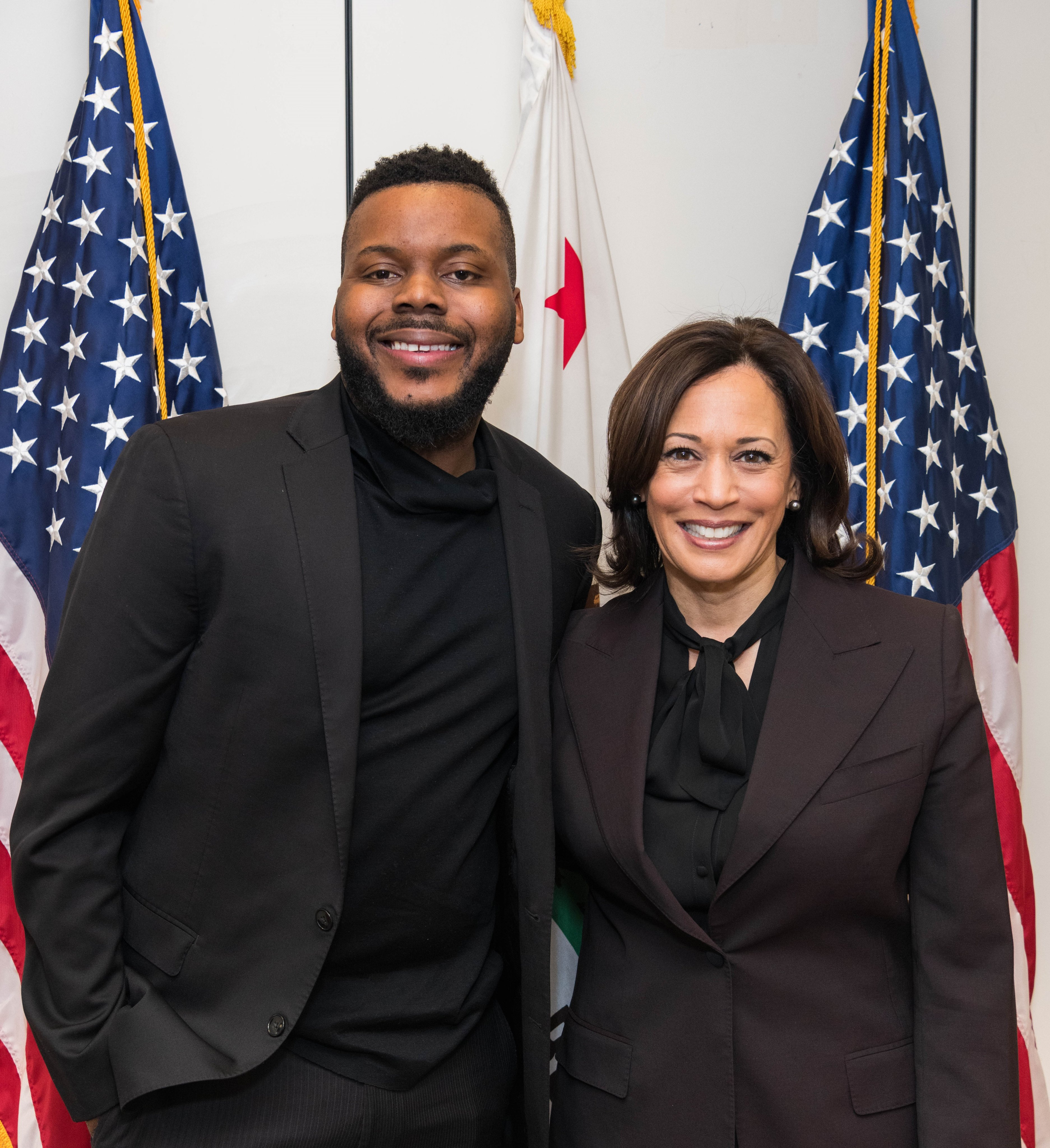 Always great to catch up with some dear friends and mayors from California. Our mayors are at the forefront of every issue we’re working on in DC—and I know these three are fierce leaders for their communities.